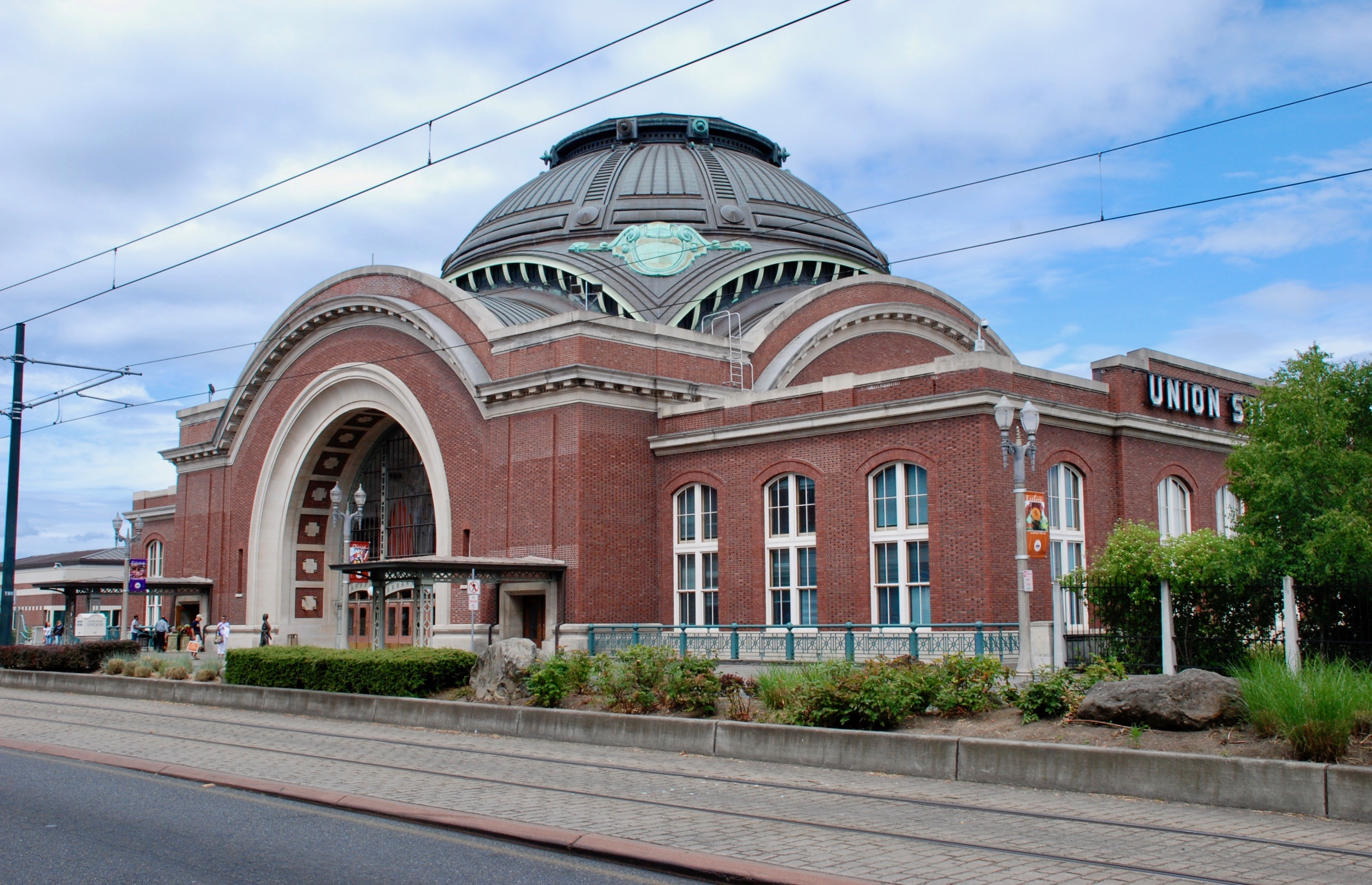 Union Station, in Tacoma, Washington, from the southwest, from across Pacific Avenue. The building's use as a train station ended in 1984.